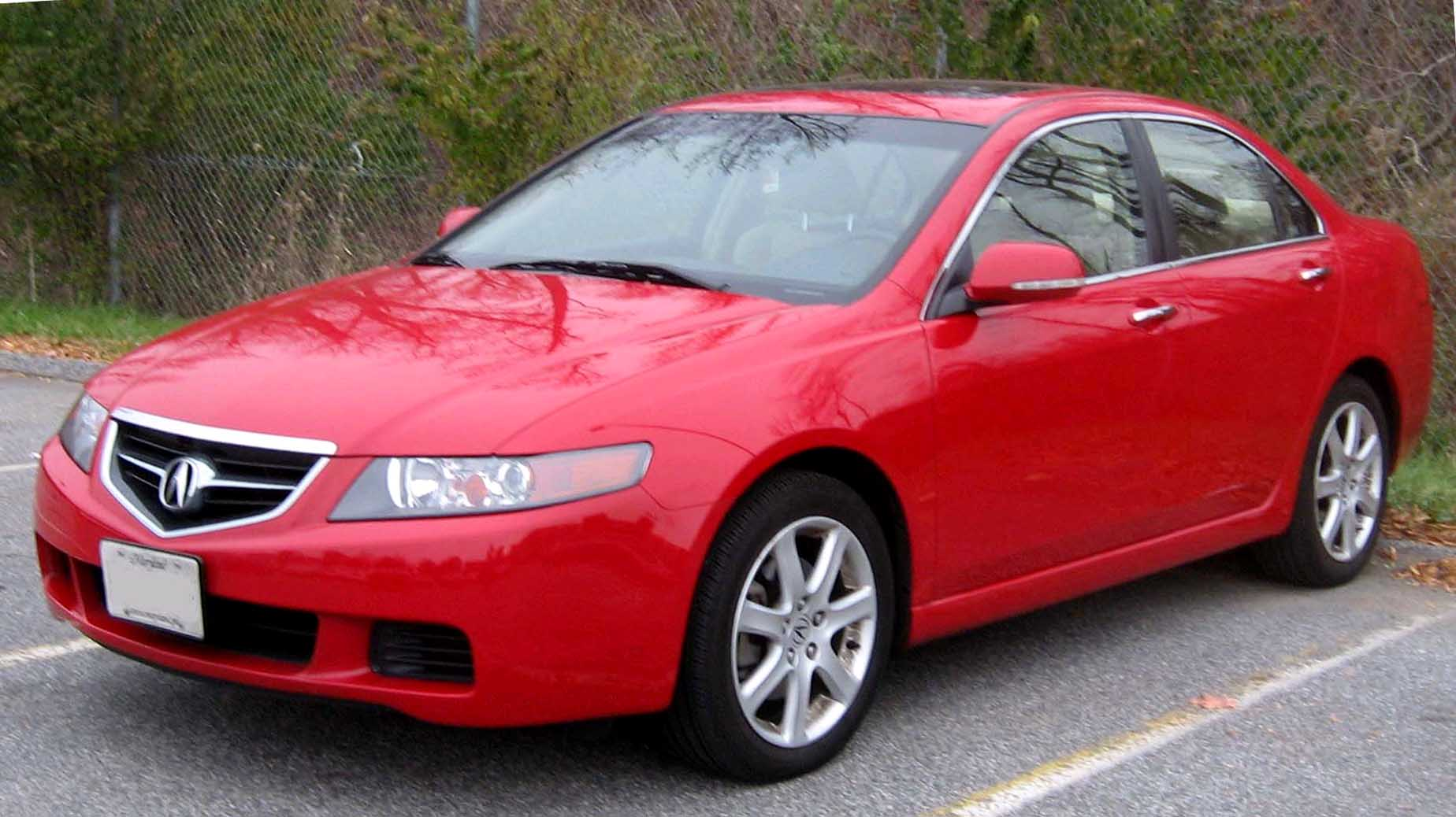 2004-2005 Acura TSX photographed in College Park, Maryland, USA.